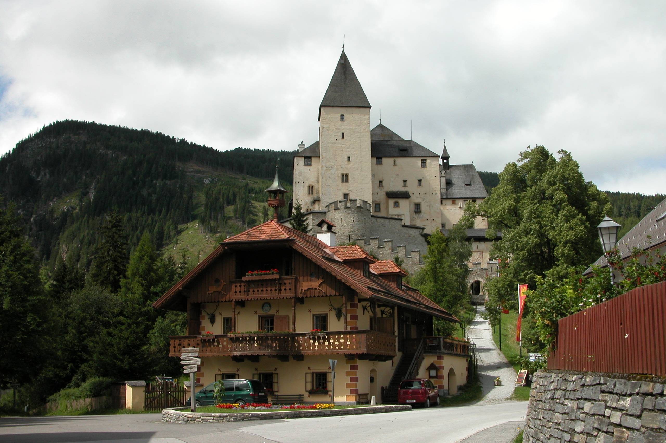 Mauterndorf Castle, Austria